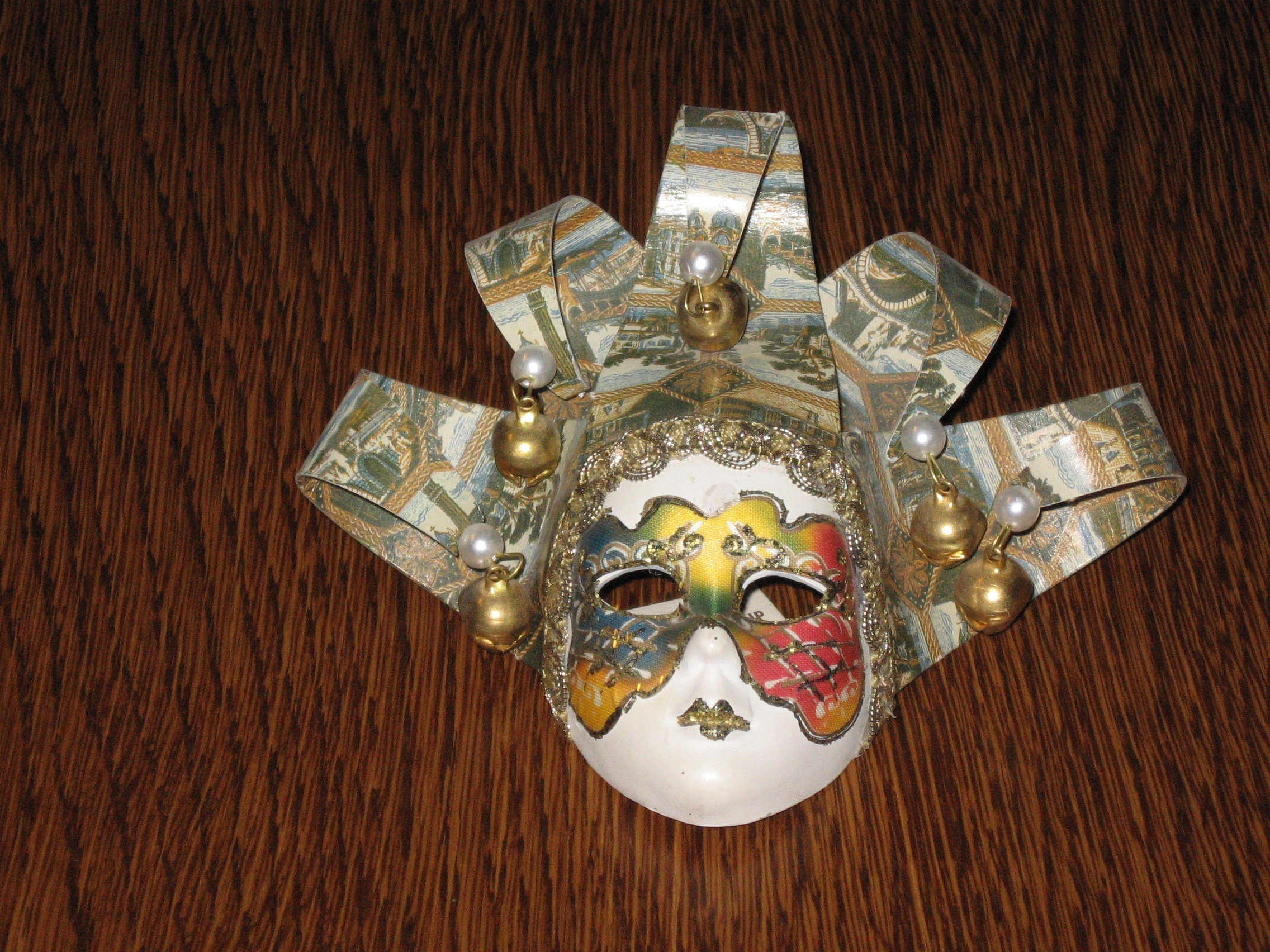 Mask from Venice